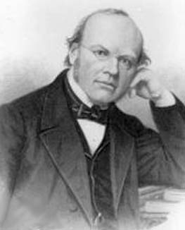 portrait of Julius Weisbach, old german scientist